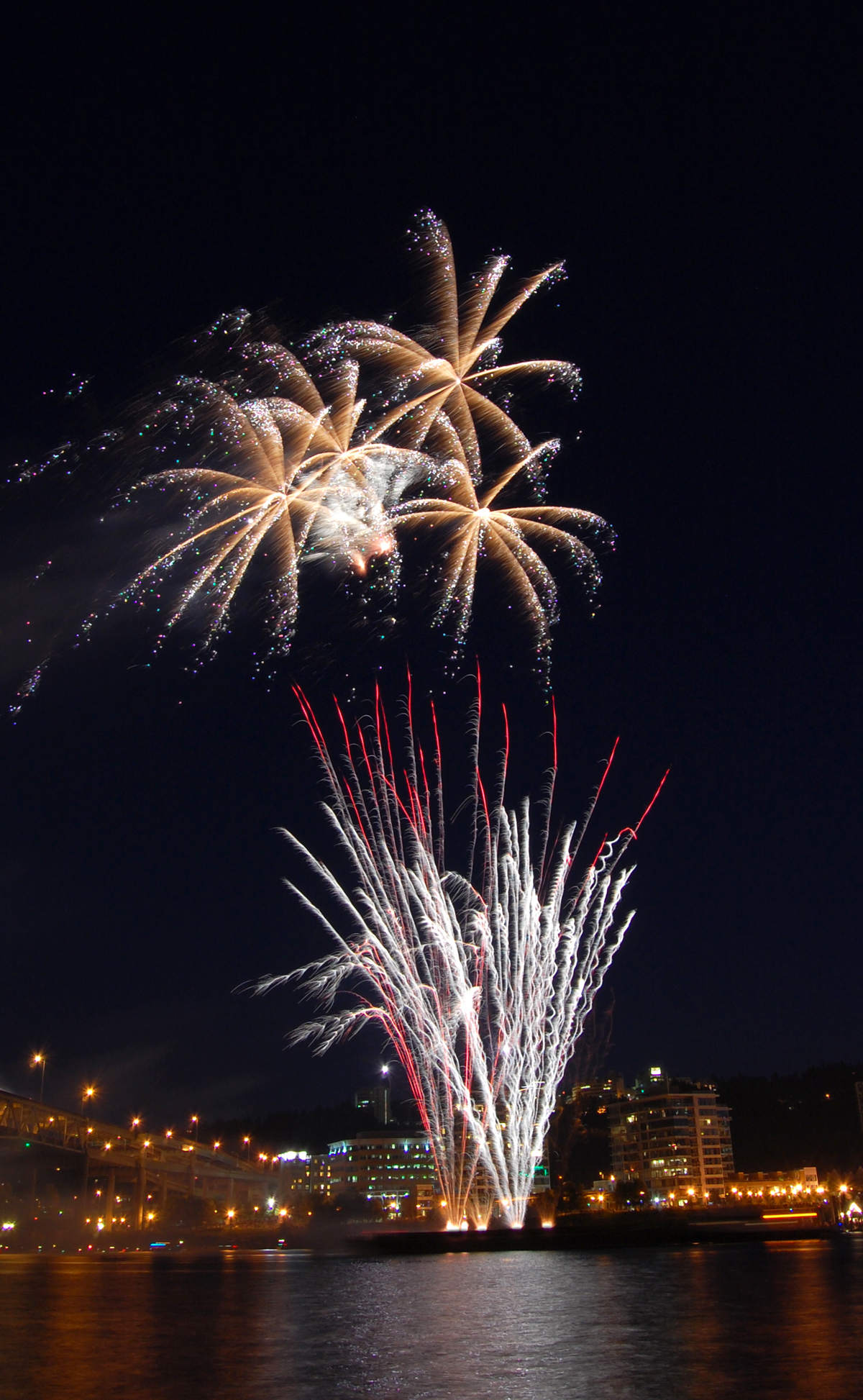 4th of july fireworks in Portland, Oregon.